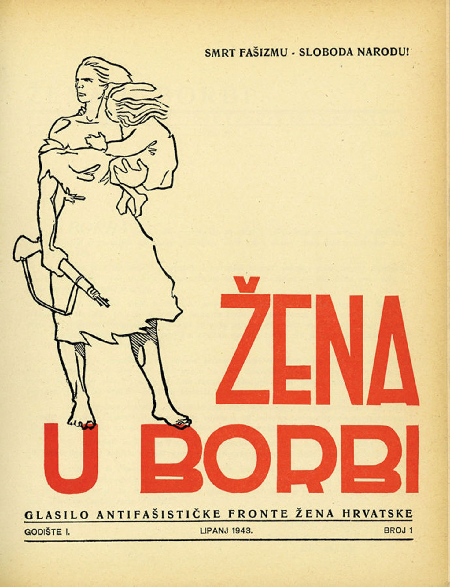 Front page of the first issue of the Croatian war journal for women, June 1943 Srpskohrvatski / српскохрватски: Naslovna stranica prvoga izdanja hrvatskoga ratnog glasila za žene, lipanj 1943